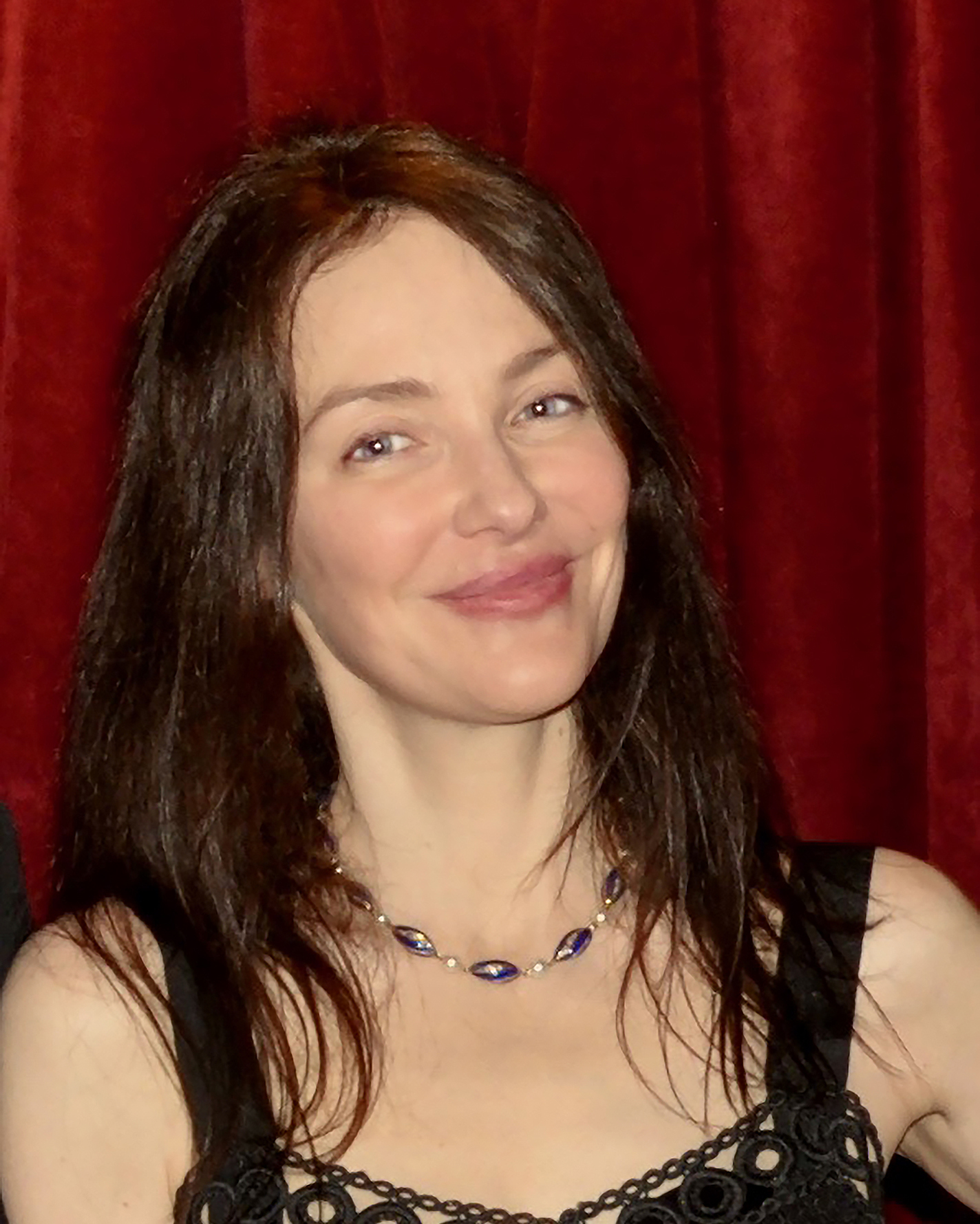 photo of Nesgoda in Southampton, NY at the Virgin reception August 9, 2018